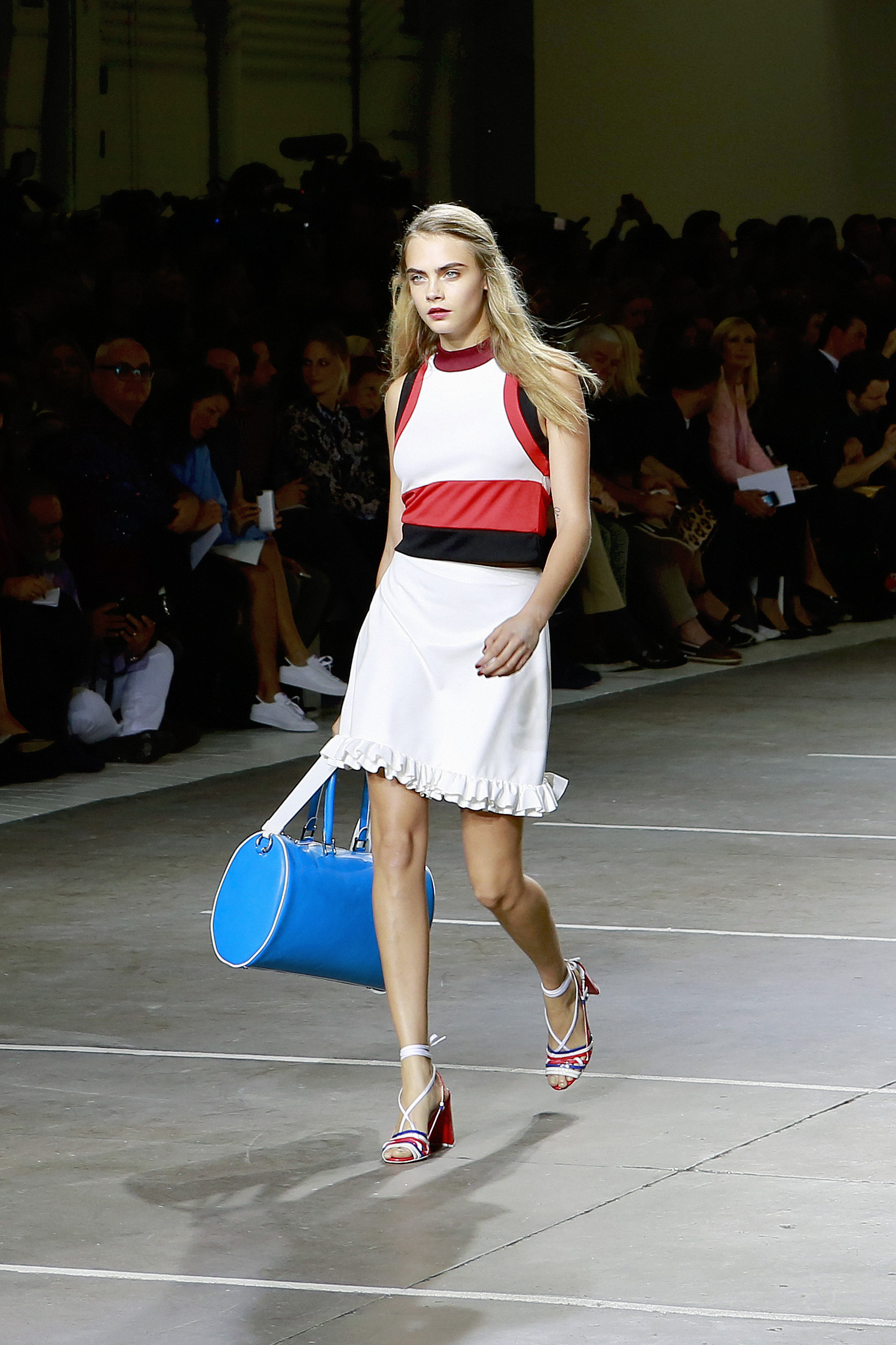 Cara Delevingne During LFW SS15.